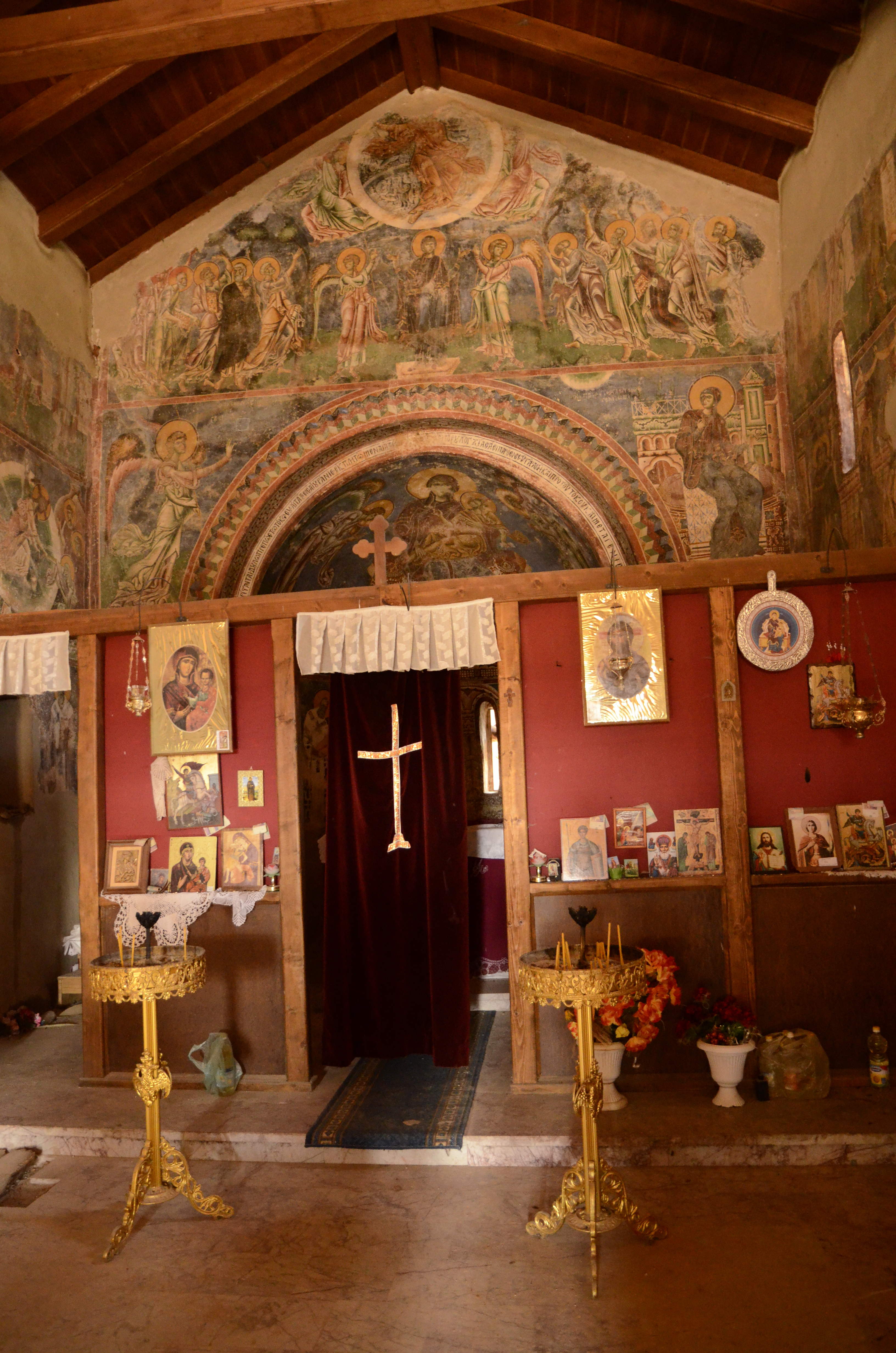 Church of Saint George in Kurbinovo, iconostasis